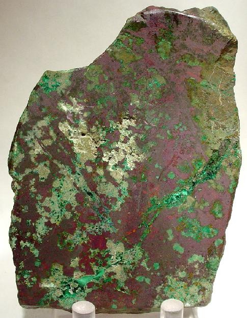 Cuprite, Malachite Locality: Ely, Robinson District, White Pine County, Nevada, USA (Locality at ) A very rich, old-time, slabbed CABINET ore specimen of lustrous, deep blood-red, massive cuprite in malachite from Nevada with the label glued to the back. Ex Richard Hauck Collection. 10.3 x 7.3 x 2.6 cm